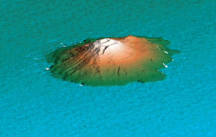 Miyako-jima volcano. from Nasa's image description: "This three-dimensional perspective view was generated using topographic data from the Shuttle Radar Topography Mission." (= not a photograph) full image description here larger image version here